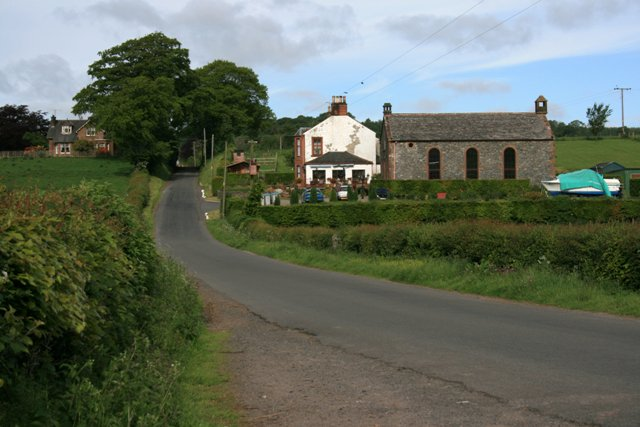 Lane From Newton Up to the B7076. Taken from Jocksthorn Bridge. The building on the right is a converted chapel.